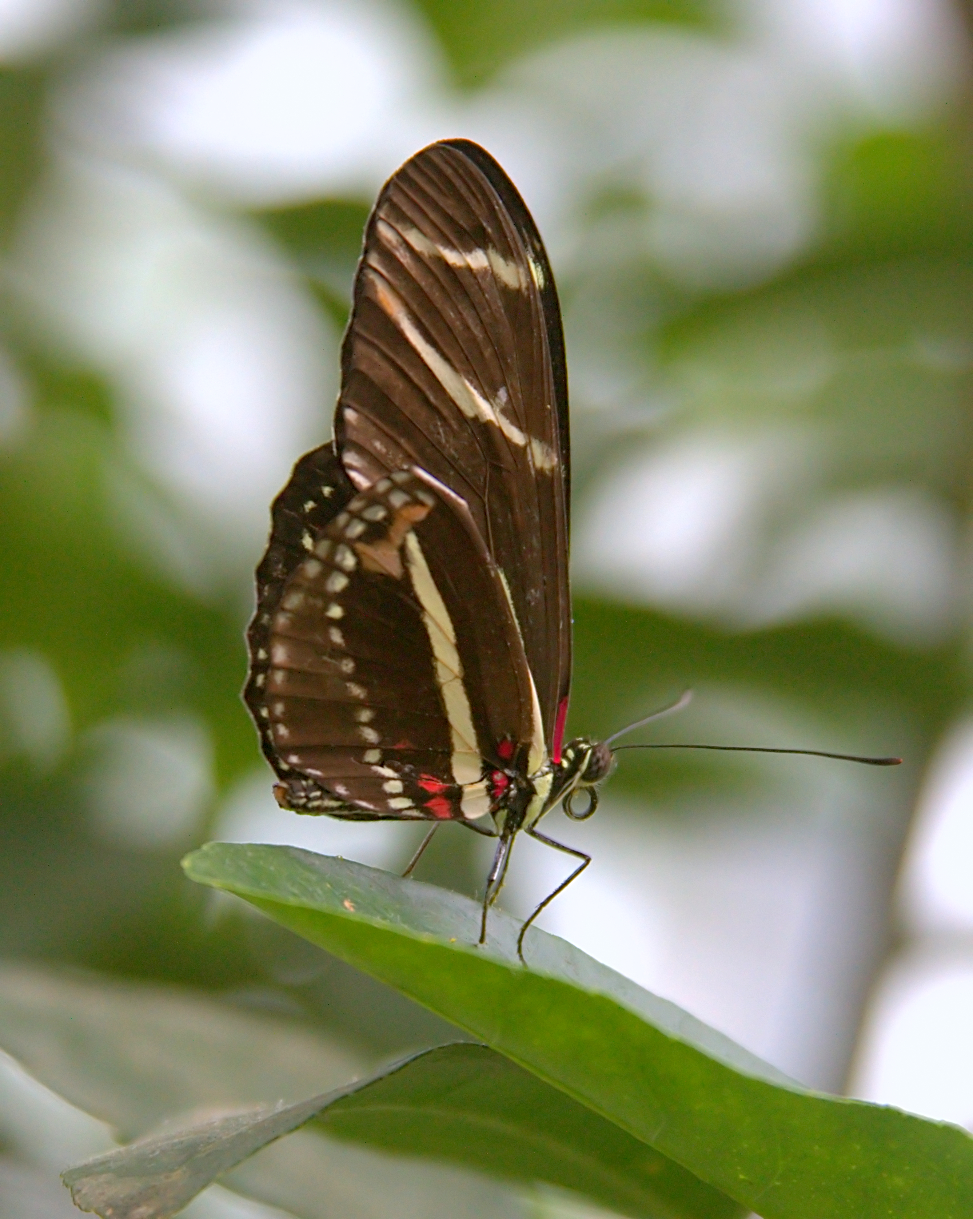 Ventral view of Heliconius charithonia. Taken at Krohn conservatory.